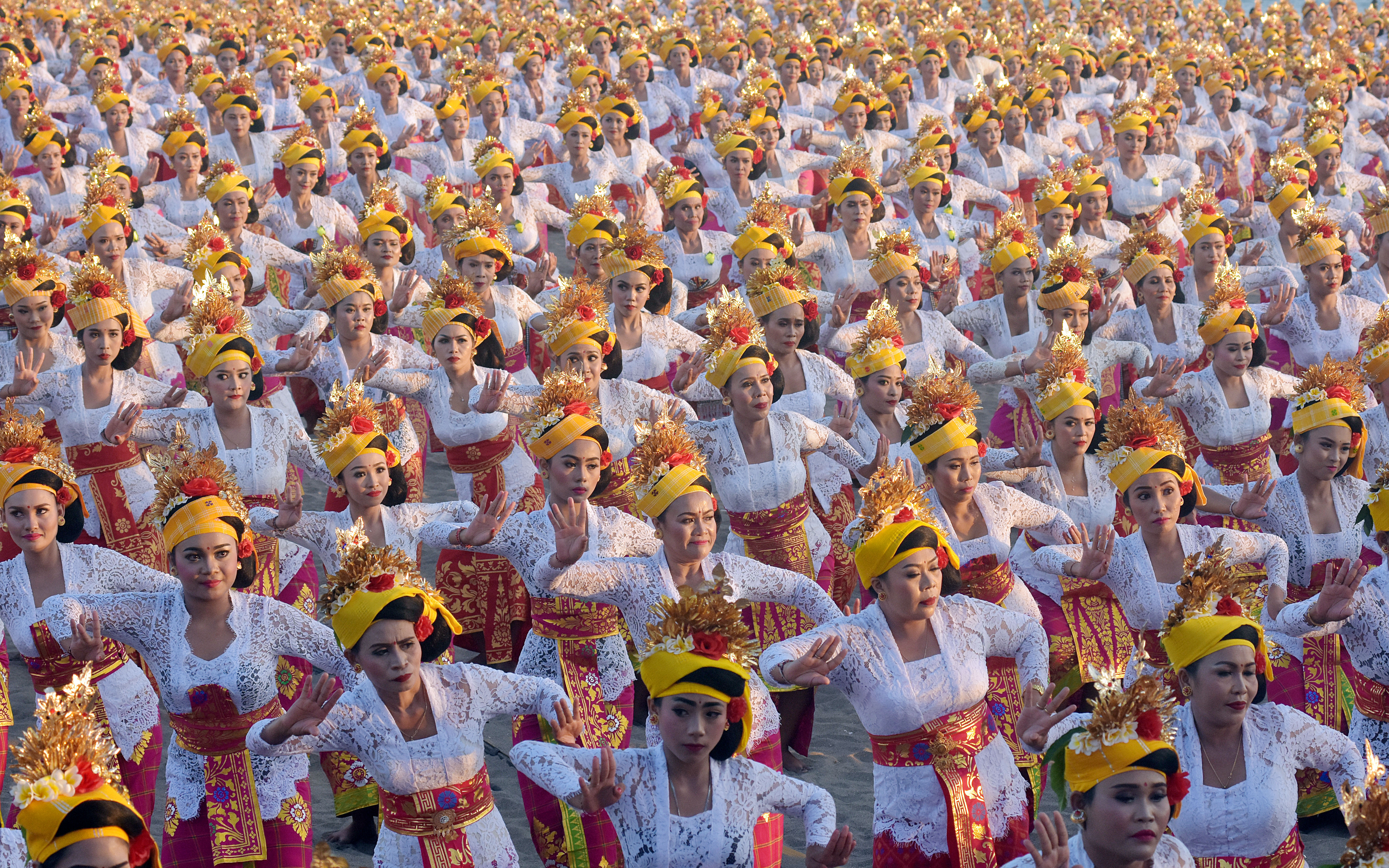 Dancers perform Tari Tenun which involves 2000 dancers in the 2018 Petitenget Festival in the Petitenget Beach area, Badung, Bali.